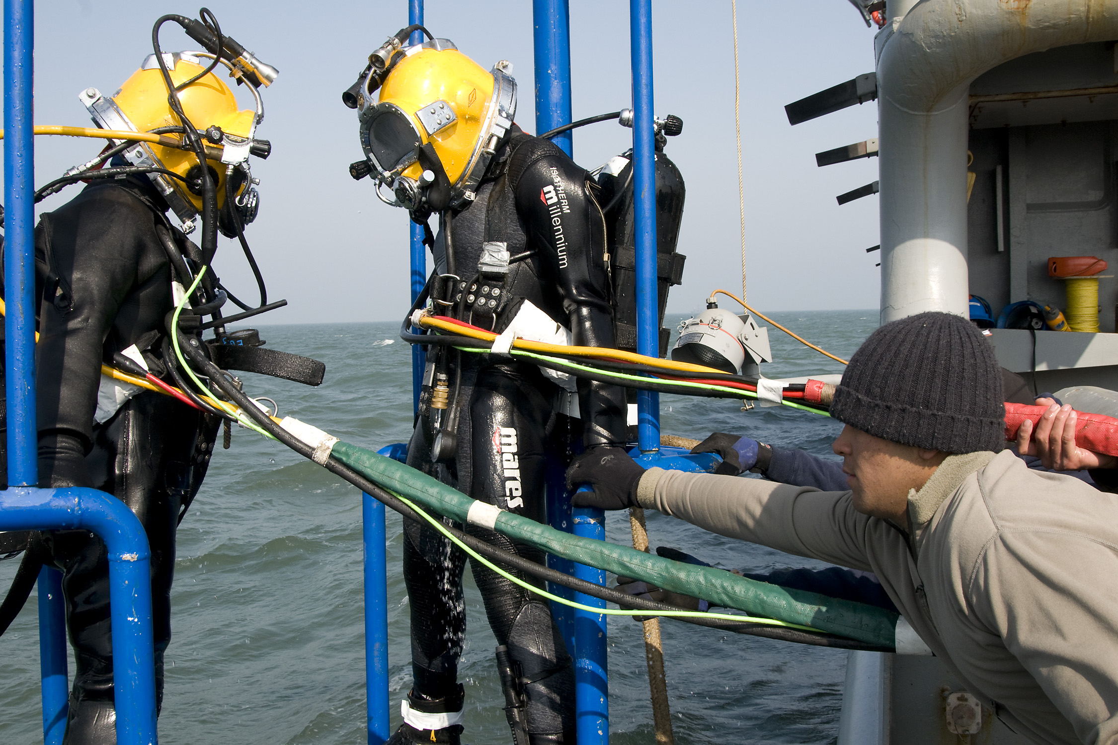 YELLOW SEA (April 9, 2010) Dive tenders recover Jong Suk Kang, left, a diver assigned to the Republic of Korea Sea Salvage and Rescue Unit, and Lt. Matthew Lindsey, diving officer and company commander of Mobile Diving and Salvage Unit (MDSU) 1, aboard the Military Sealift Command rescue and salvage ship USNS Salvor (T-ARS 52) during a joint dive training exercise. (U.S. Navy photo by Mass Communication Specialist 2nd Class Byron C. Linder/Released)